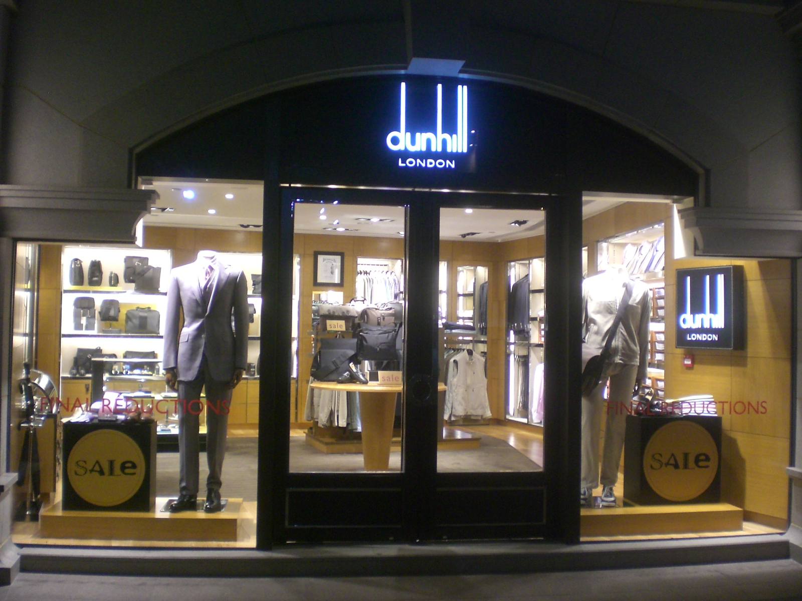 尖沙咀zh:1881 Heritage Alfred Dunhill